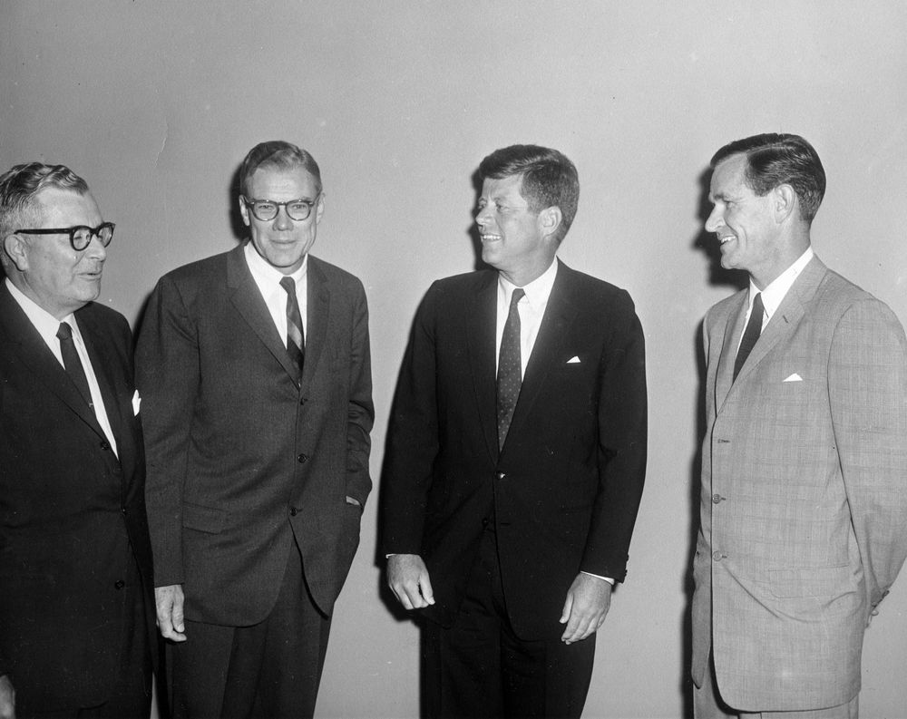 President John F. Kennedy attends a luncheon celebrating the release of The Diary and Autobiography of John Adams, a publication of the first four volumes of the Adams Family Papers. (L – R): J. Russell Wiggins, Editor of The Washington Post; John W. Sweeterman, Post publisher; President Kennedy; Phil Graham, Post co-owner. Statler Hilton Hotel, Washington, D.C.